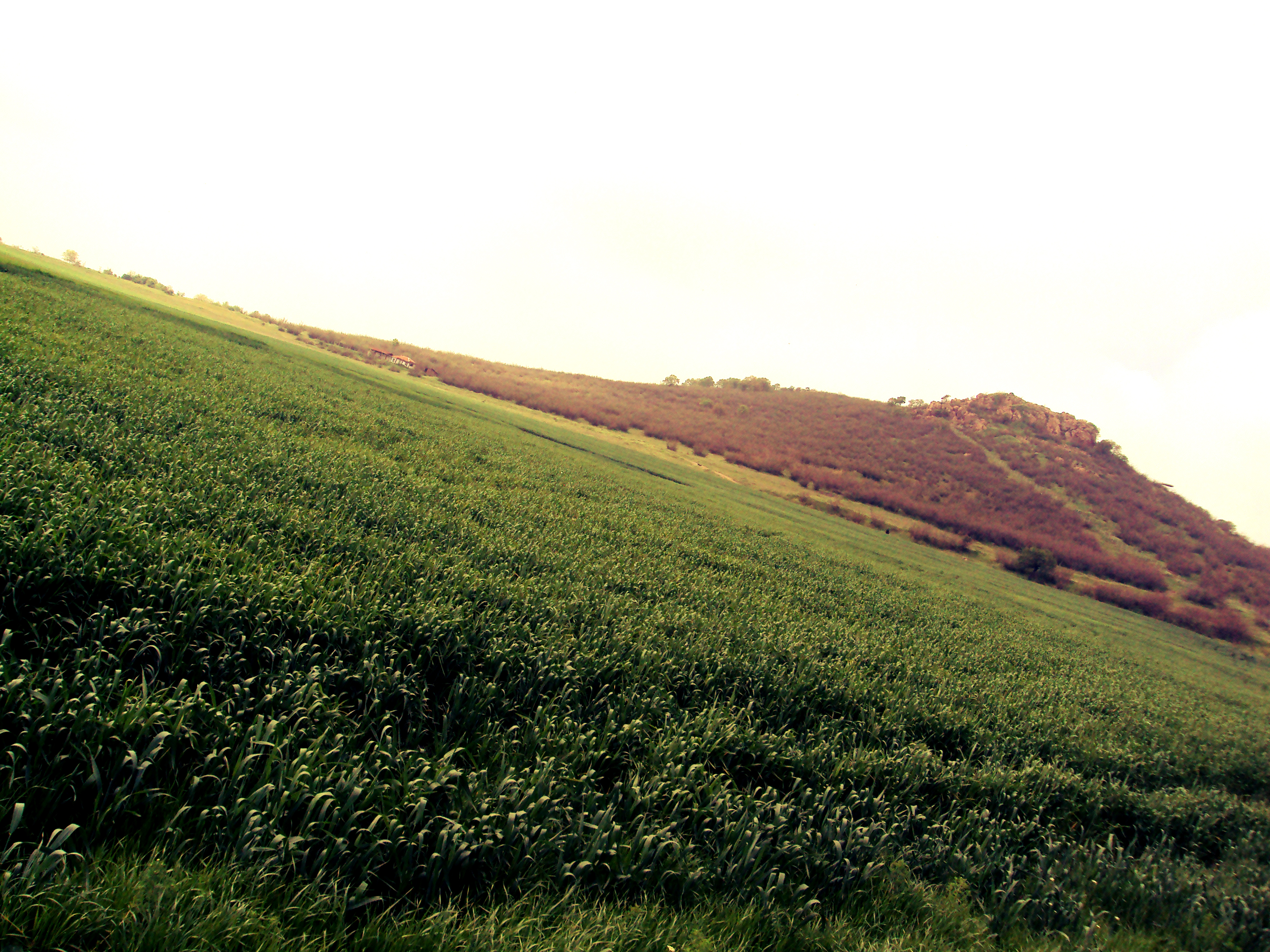 Zaytchi_vruh_Cabile_BG